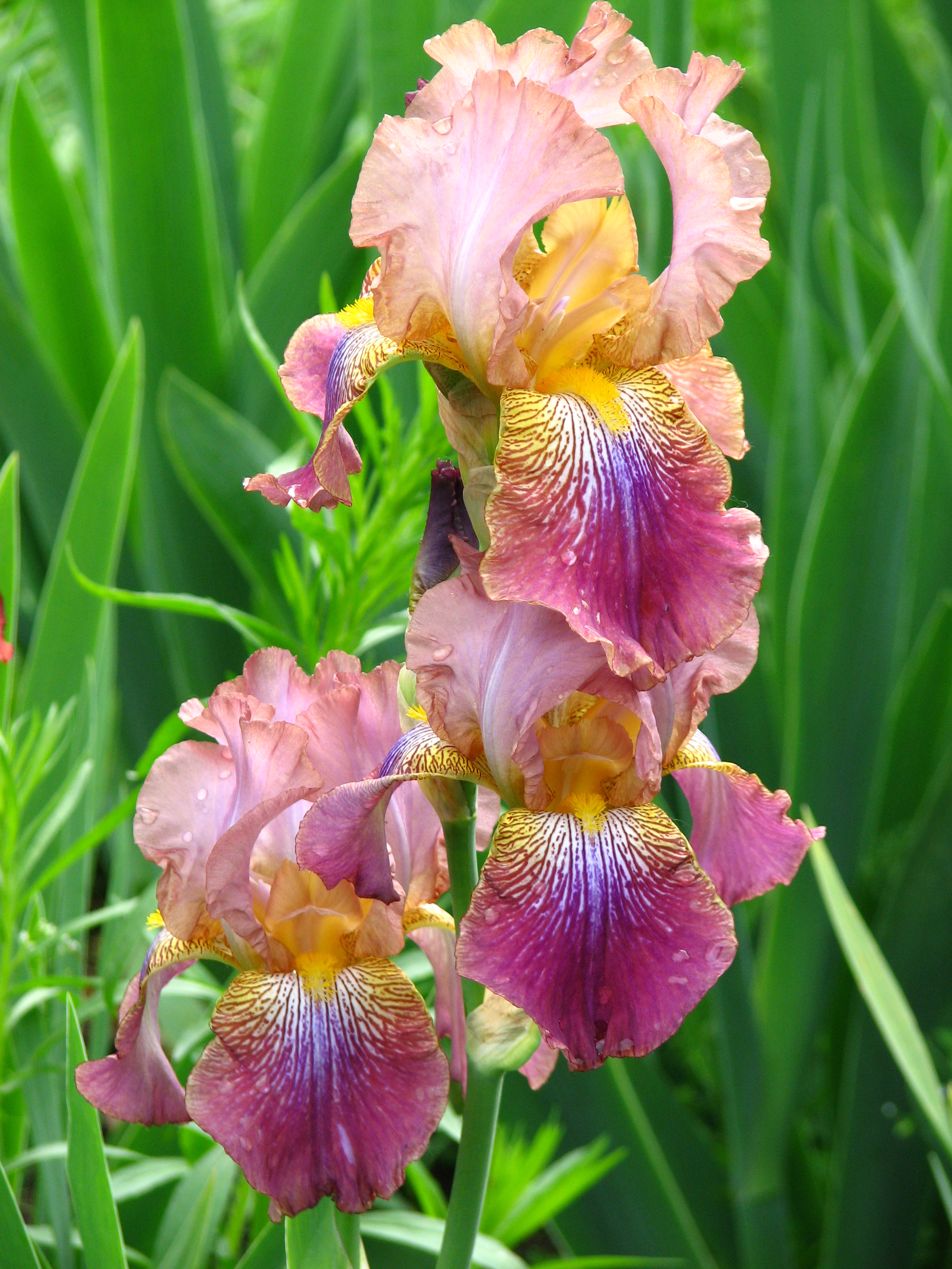 Iris 'Vladimir Vysotsky'. From the collection of the Botanical Garden of Moscow State University (main area on the Sparrow Hills).